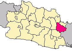 Location of Kuningan county, West Java province, Indonesia